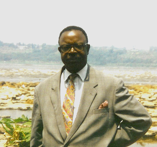 This image was copied from fr. The original description was: "Photo réalisée par Kama Sywor Kamanda et fournie pour Wikipédia avec autorisation de l'utiliser en vertu d'une licence CC-BY-SA"